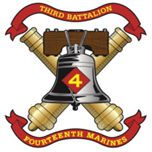 3d Bn, 14th Marine Regiment logo